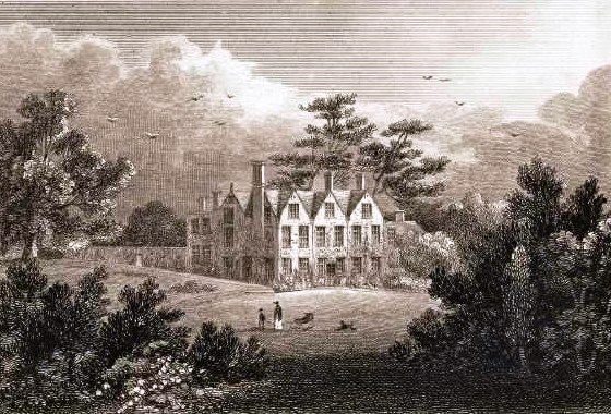 Duffield Hall, Derby Road, Duffield, Derbyshire in c 1829-40s. The building was St Ronans school until it closed in 1971.